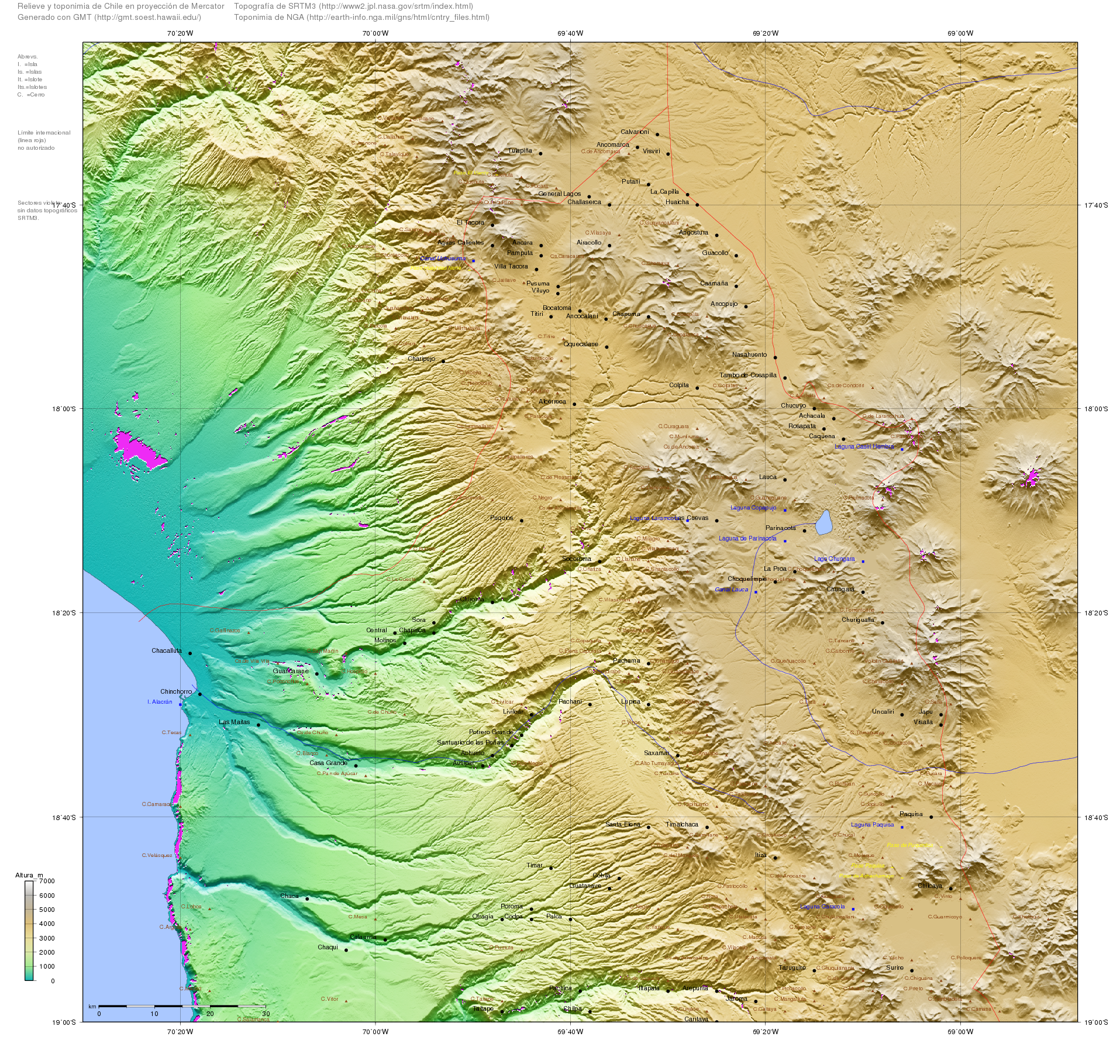 Map of Chile generated with GMT ( topography from SRTM ftp://e0srp01u.ecs.nasa.gov/srtm/version2/SRTM3/ and toponymy from